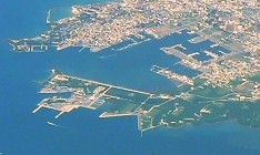 Aerial view of Magong Harbor.